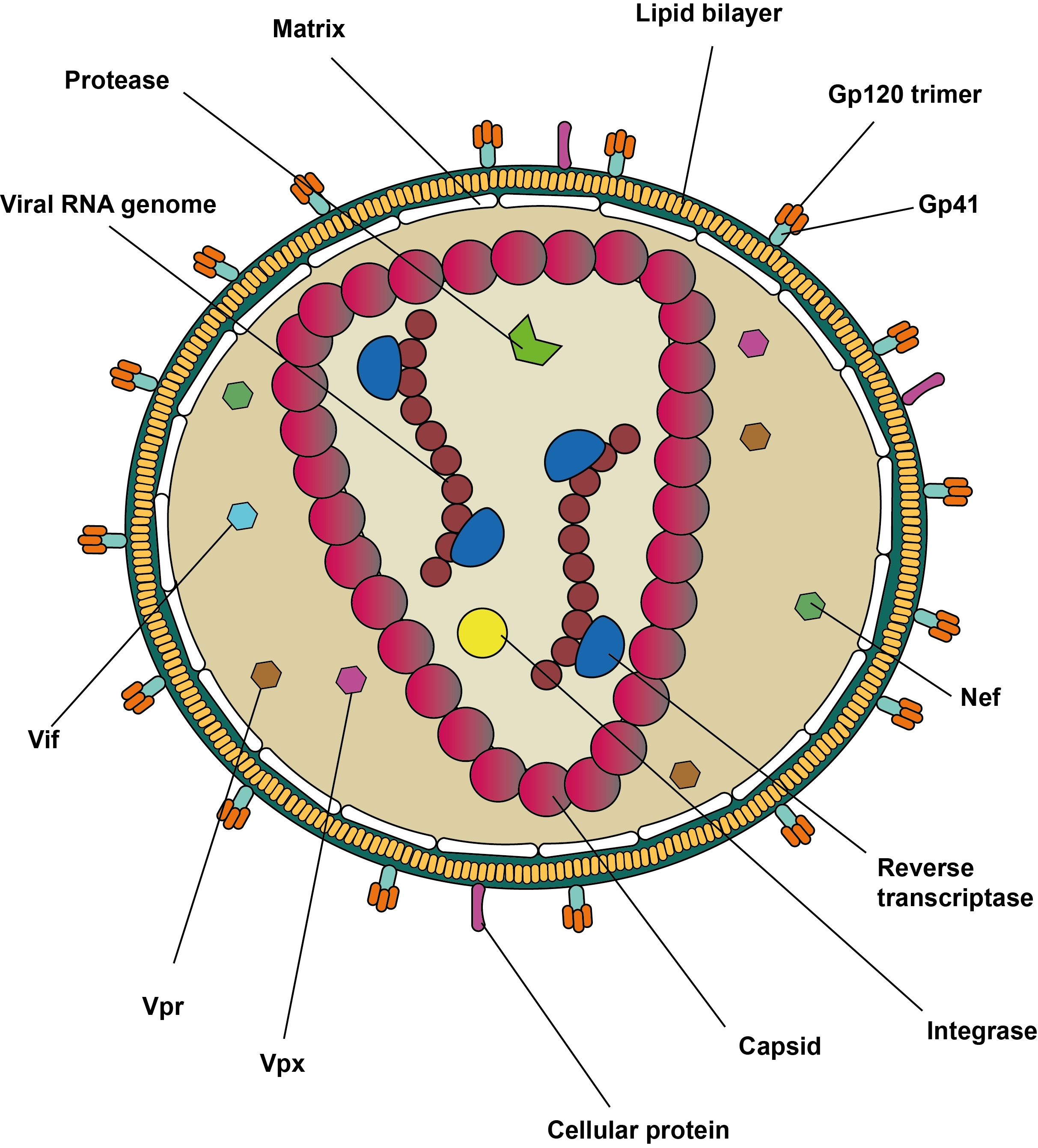 HIV virion diagram with accessory proteins